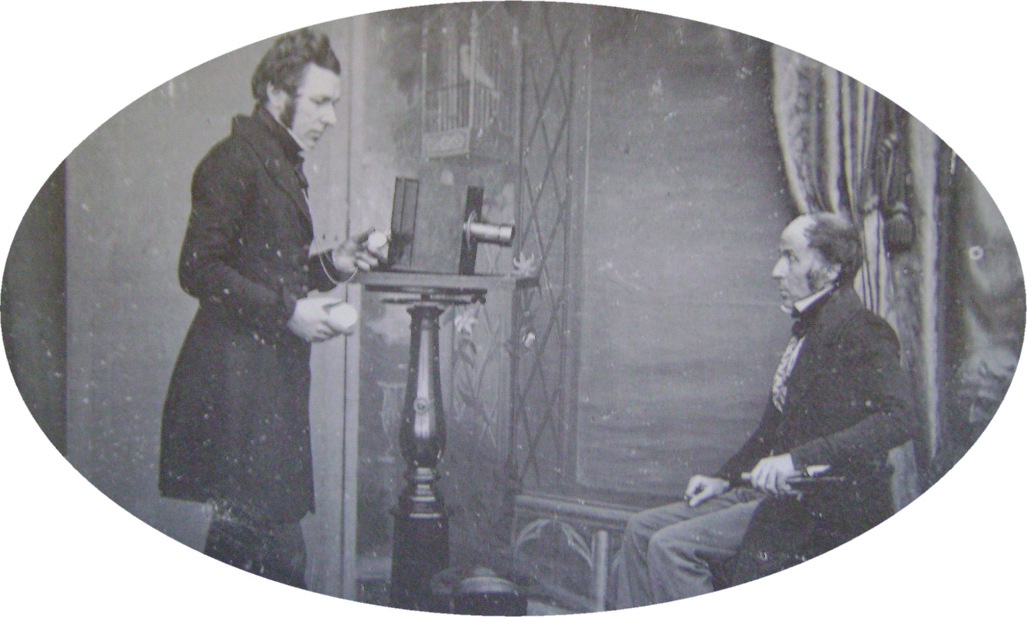 William S. Johnson having his portrait picture taken at Beard's London studio.